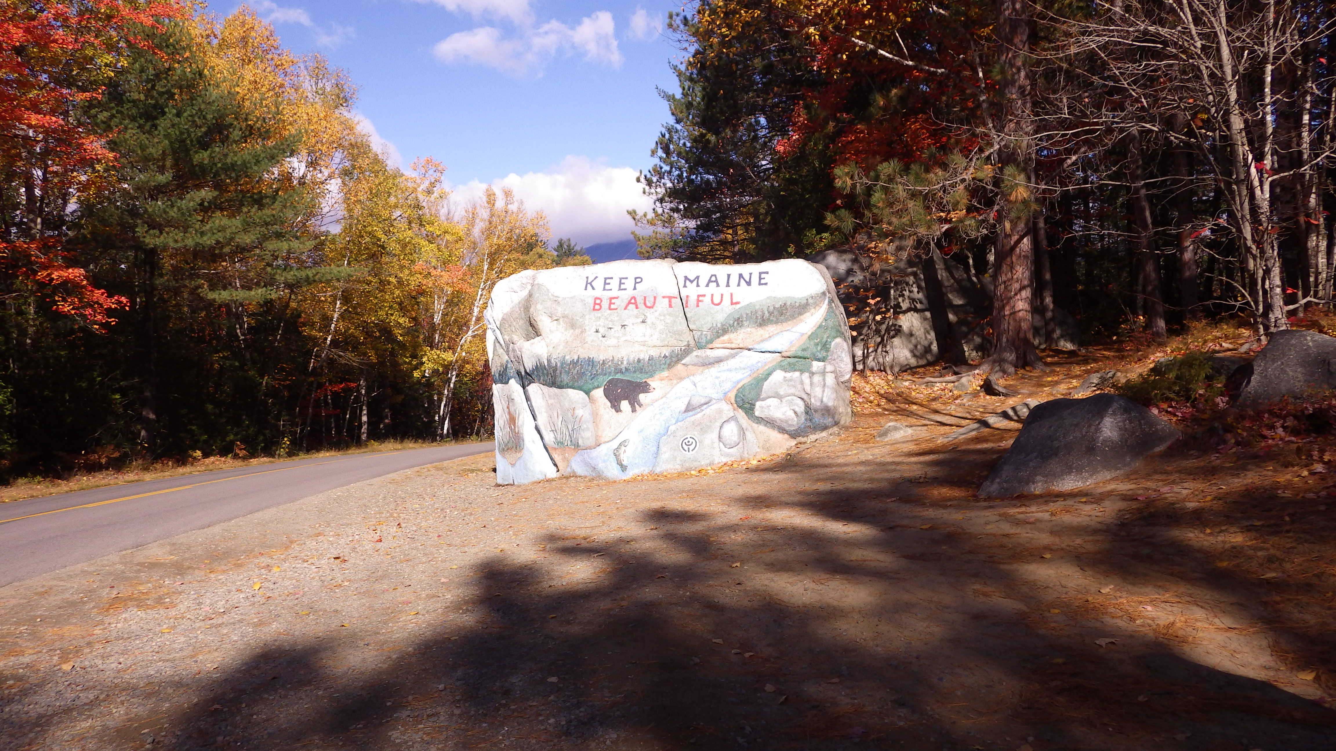 Photo of Pockwockamus Rock